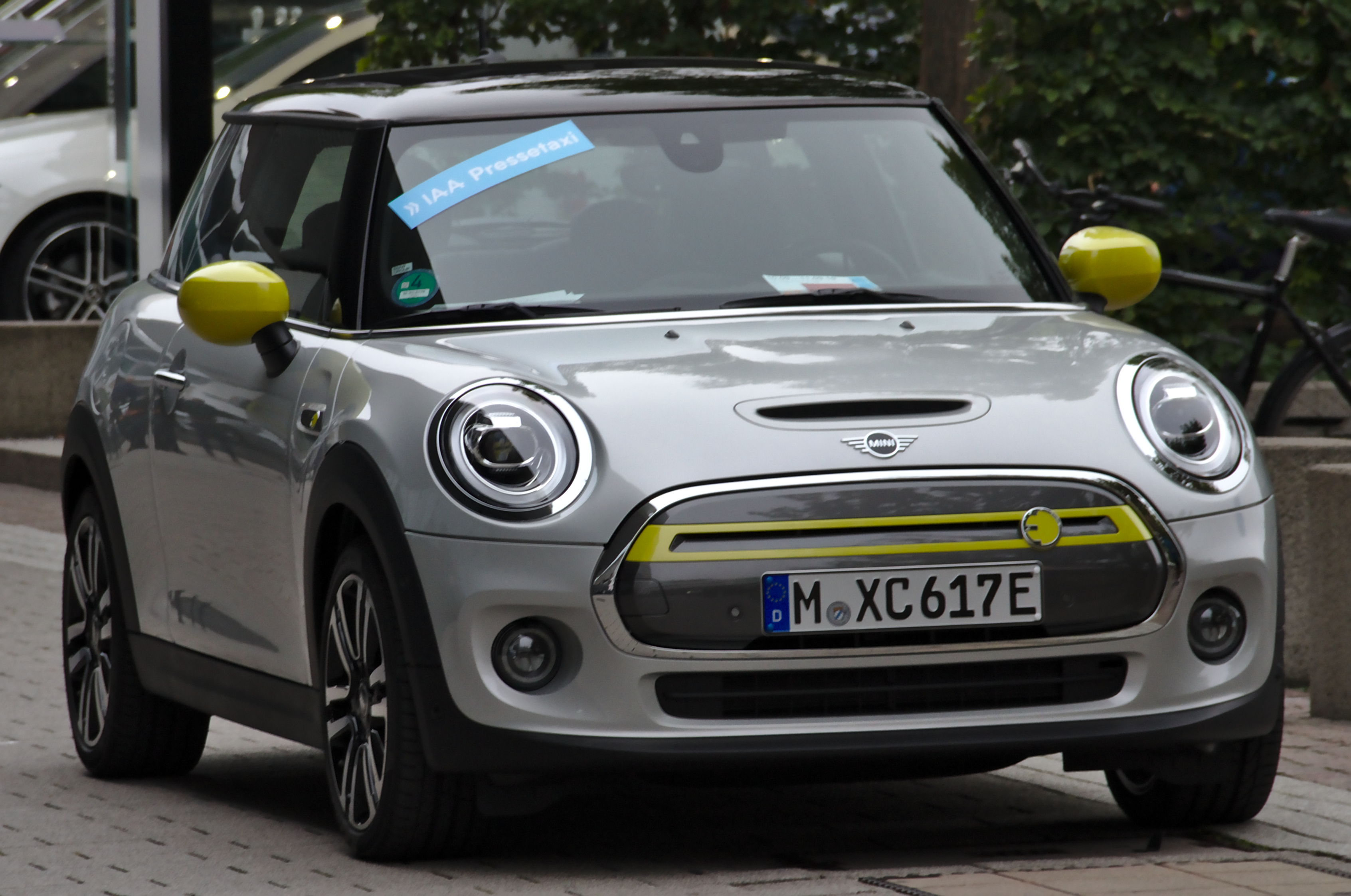 Mini_Hatch_(F56)_Electric at IAA 2019